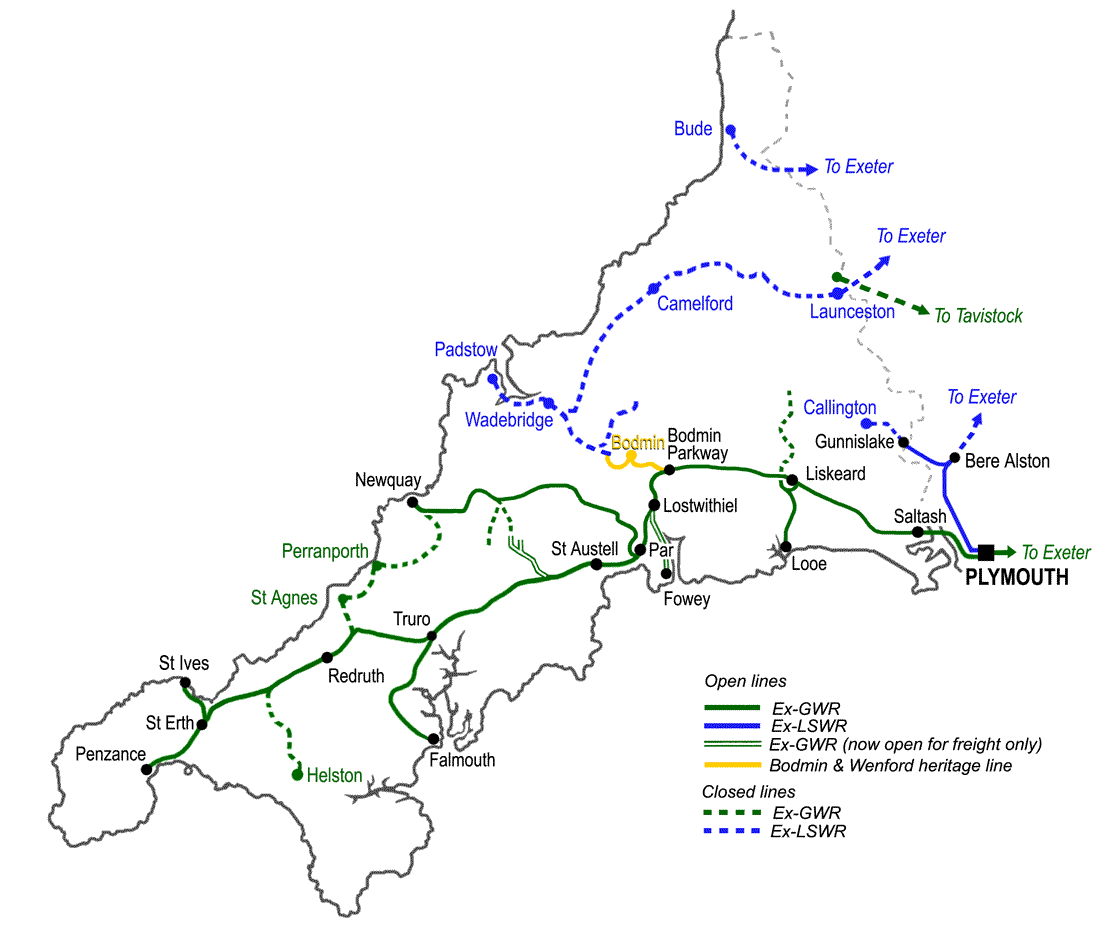 Map of Cornwall's railway including closed lines